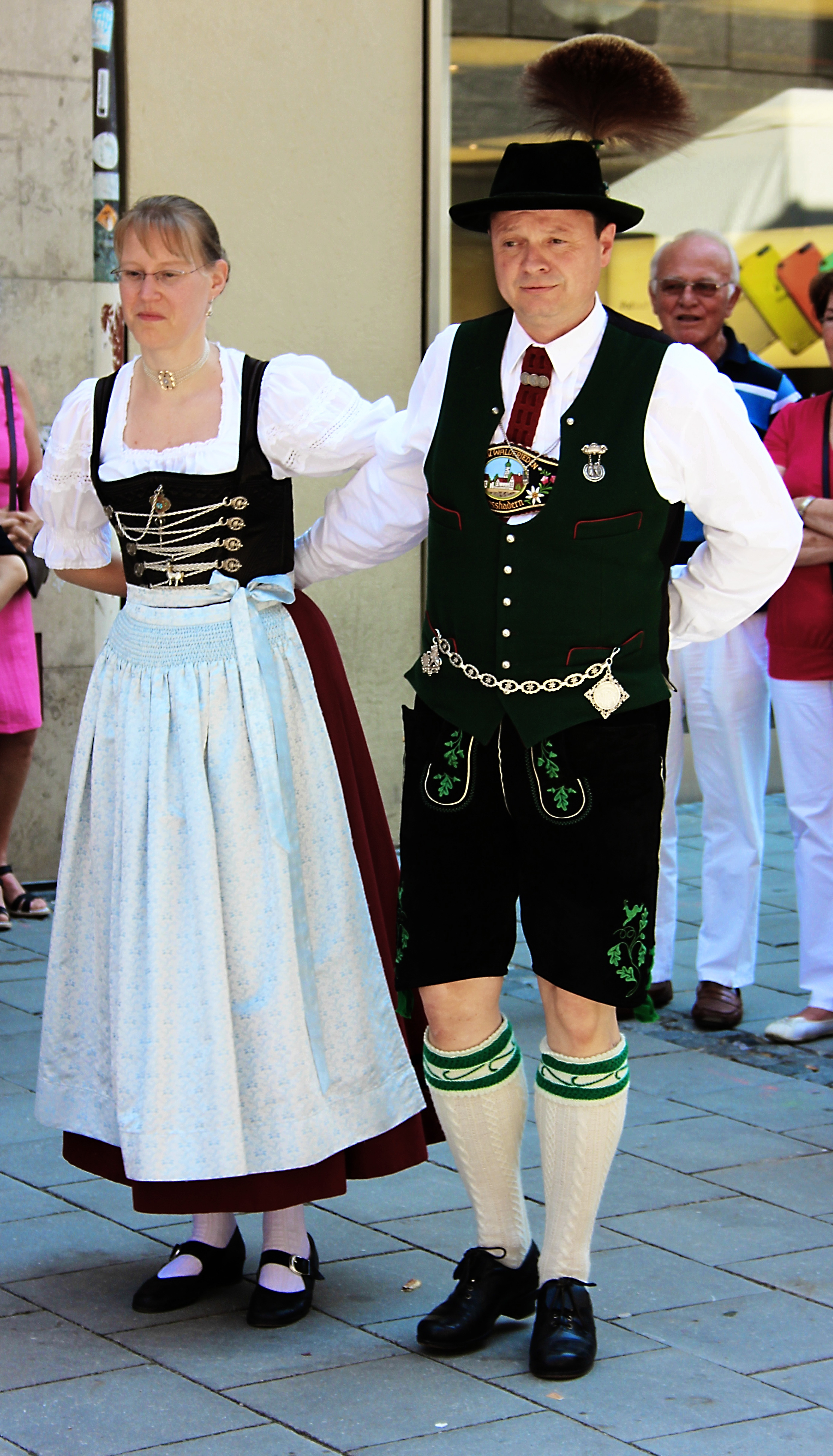 Couple in Bavarian Tracht clothing. City Foundation Festival Munich 2013. 855 years Munich.